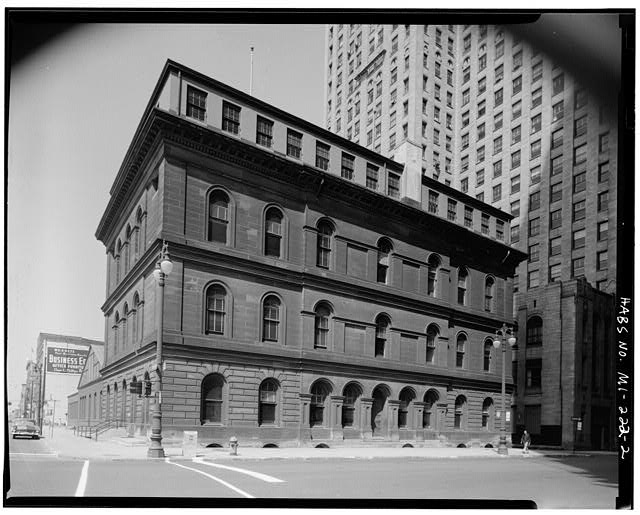 This Building Housed the US District Court for the Eastern District of Michigan from 1861-1897